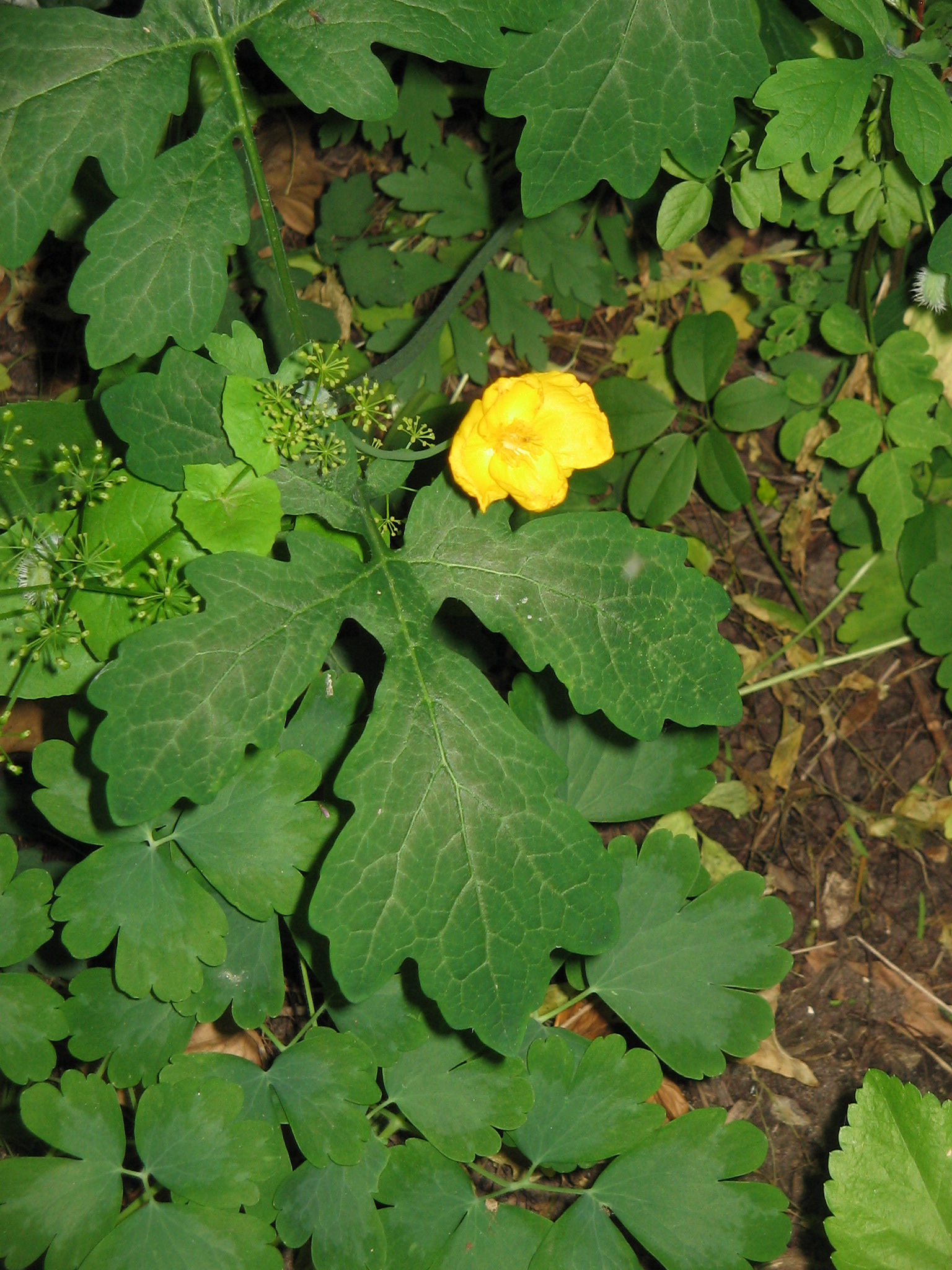 Stylophorum diphyllum